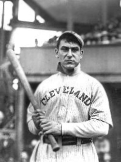 Nap Lajoie wearing the Cleveland Naps uniform (before 1915)